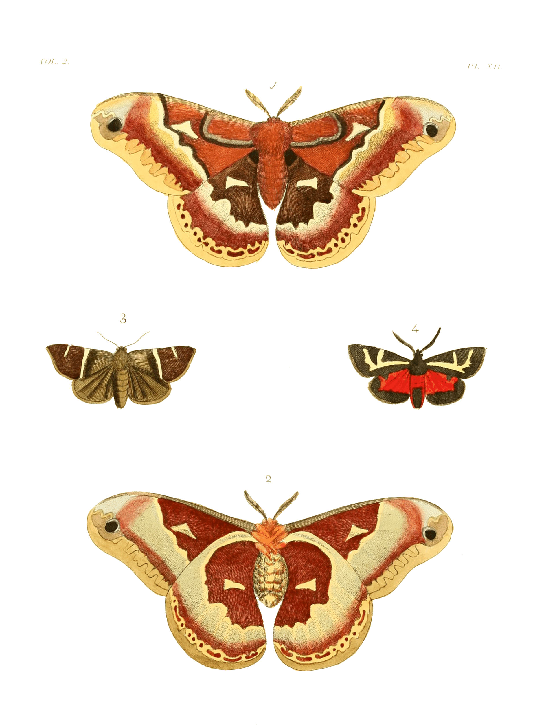 Plate XII. 1, 2. ♀. SATURNIA PROMETHEA (= Callosamia promethea). 3. NOCTUA ANILIS (= Argyrostrotis anilis). 4. NEMEOPHILA FIGURATA (= Grammia figurata).